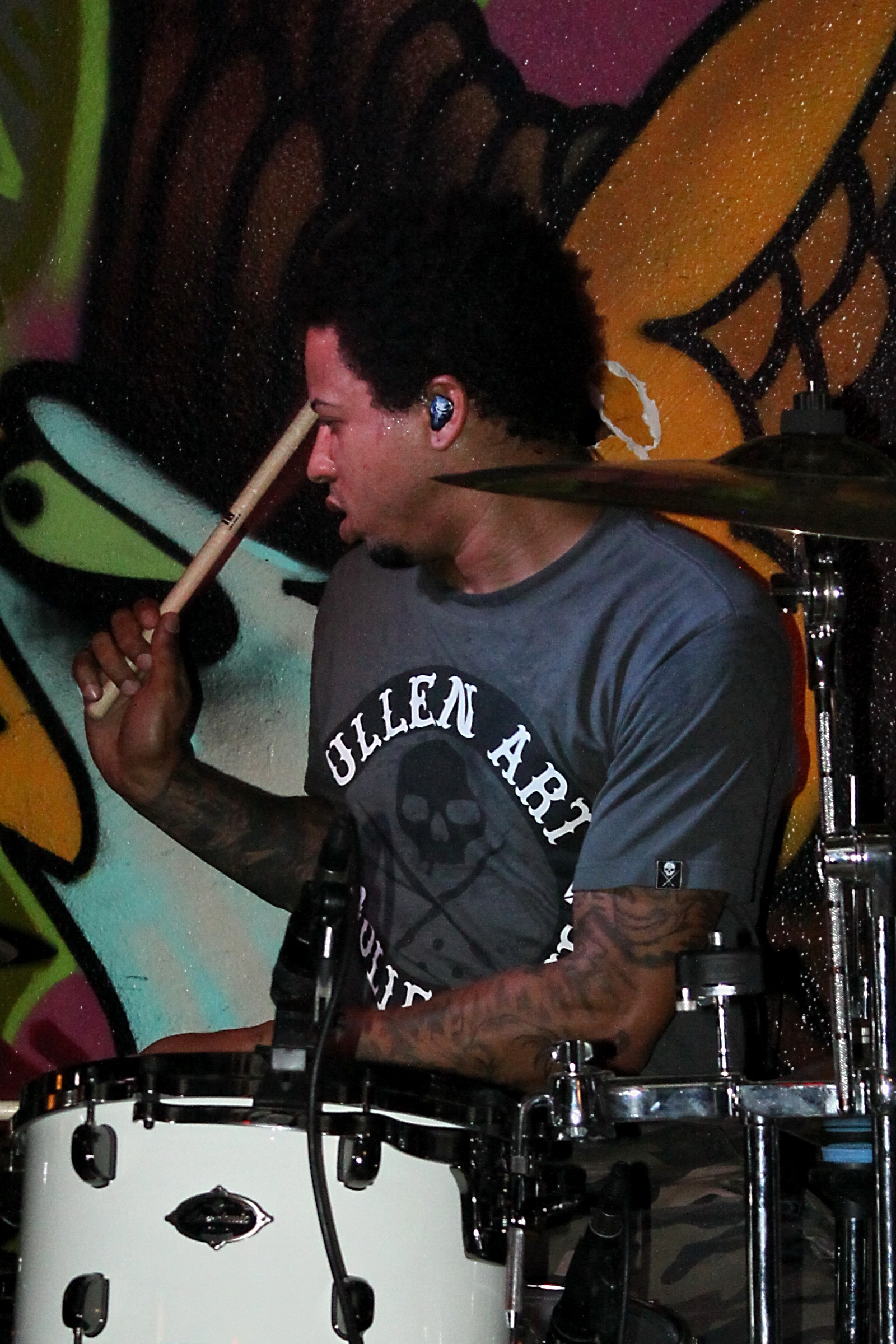 Drummer